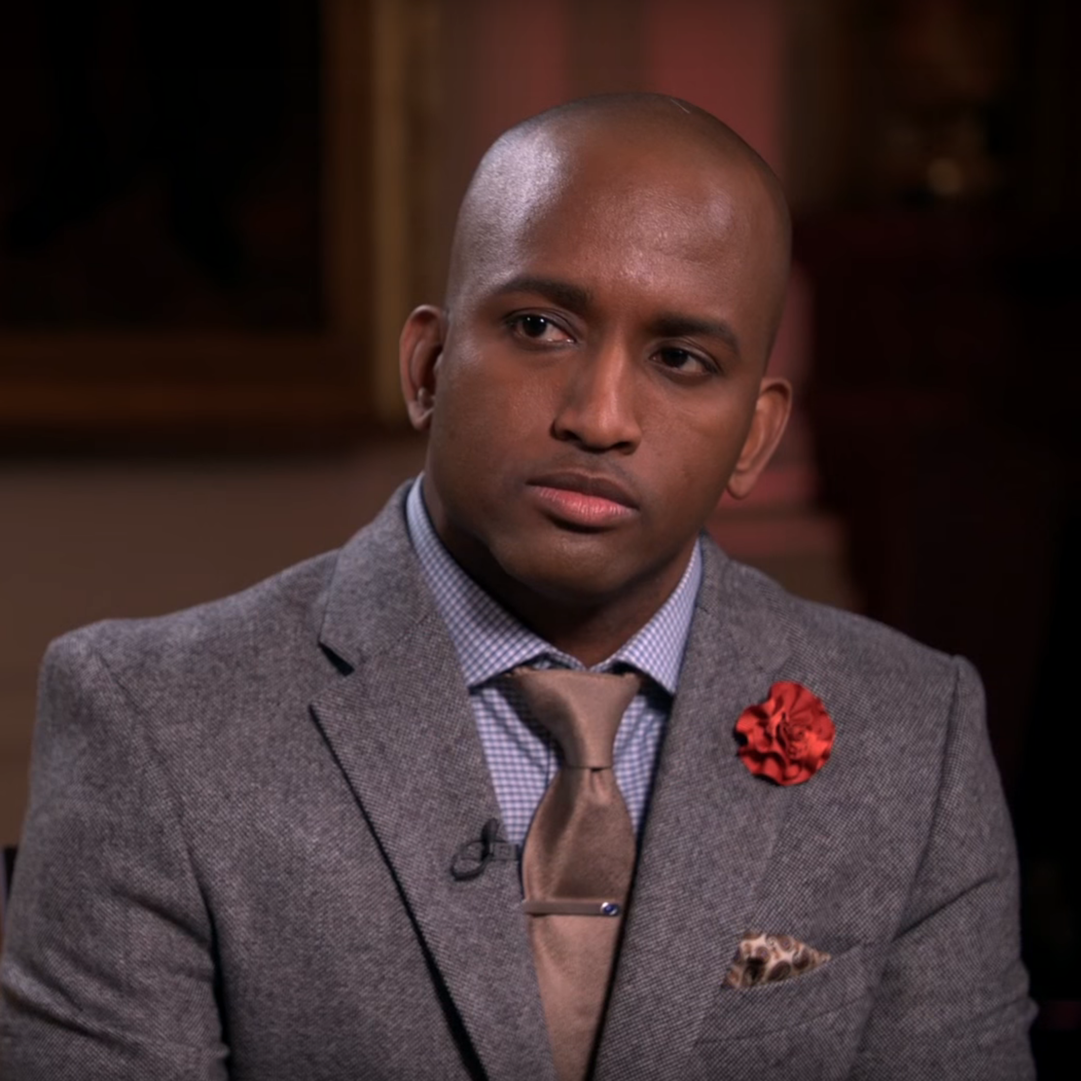 Cropped image of Thorne interviewing Obama for a Youtube live stream, Jan 2016